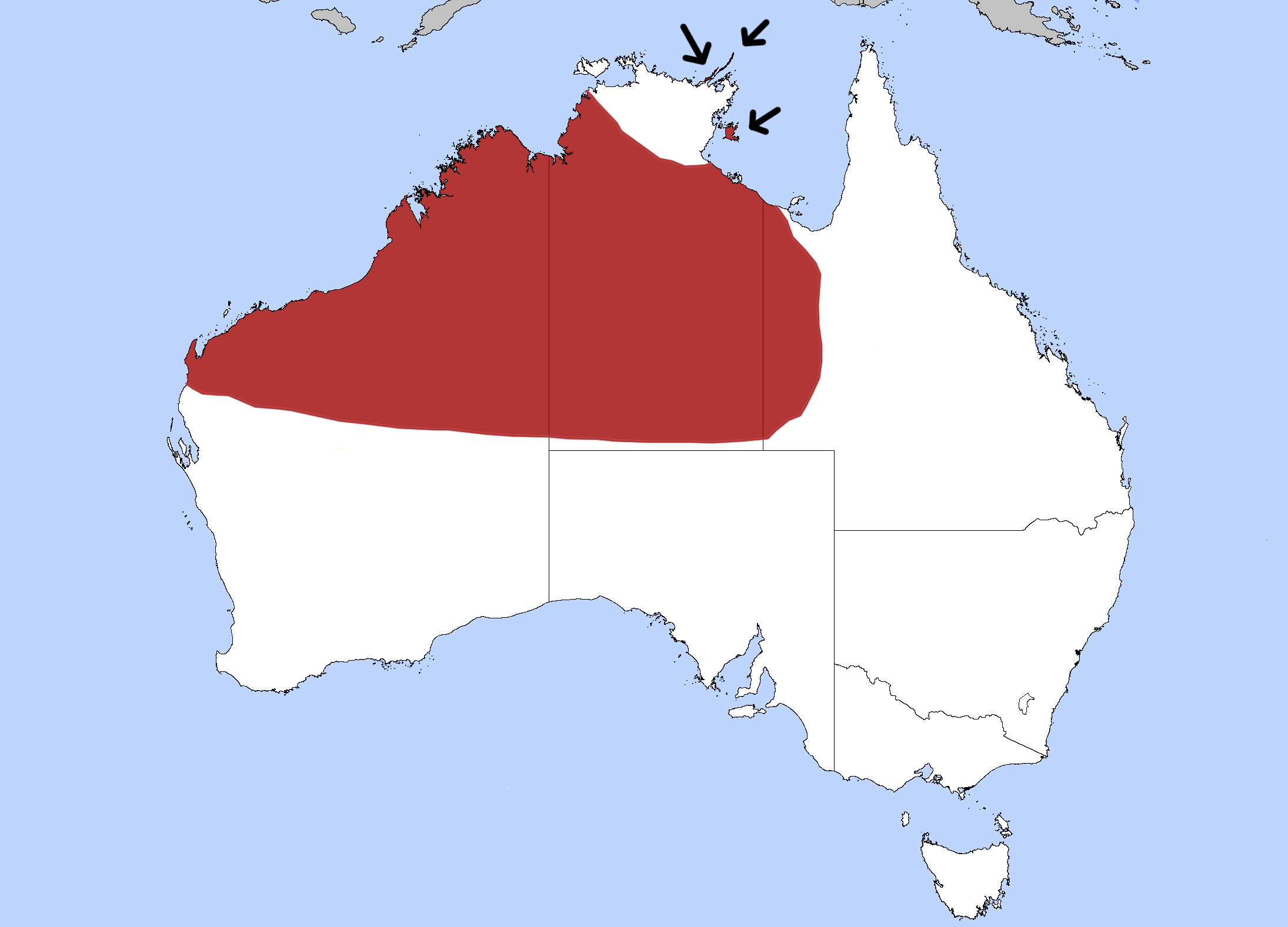 The Distribution of the Spiny-tailed Monitor